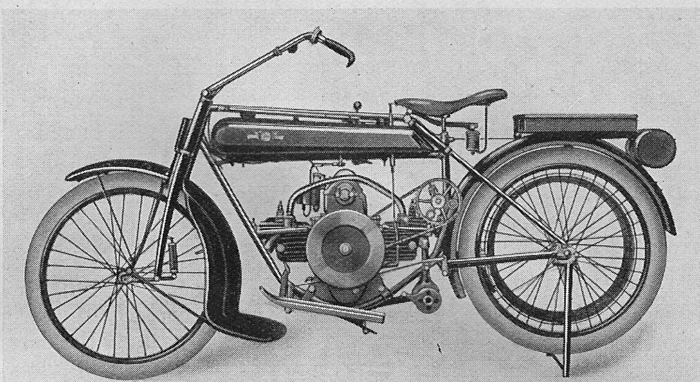 Flat-Twin Magnat-Debon french motorcycle in 1920. 2 gears, belt transmission.